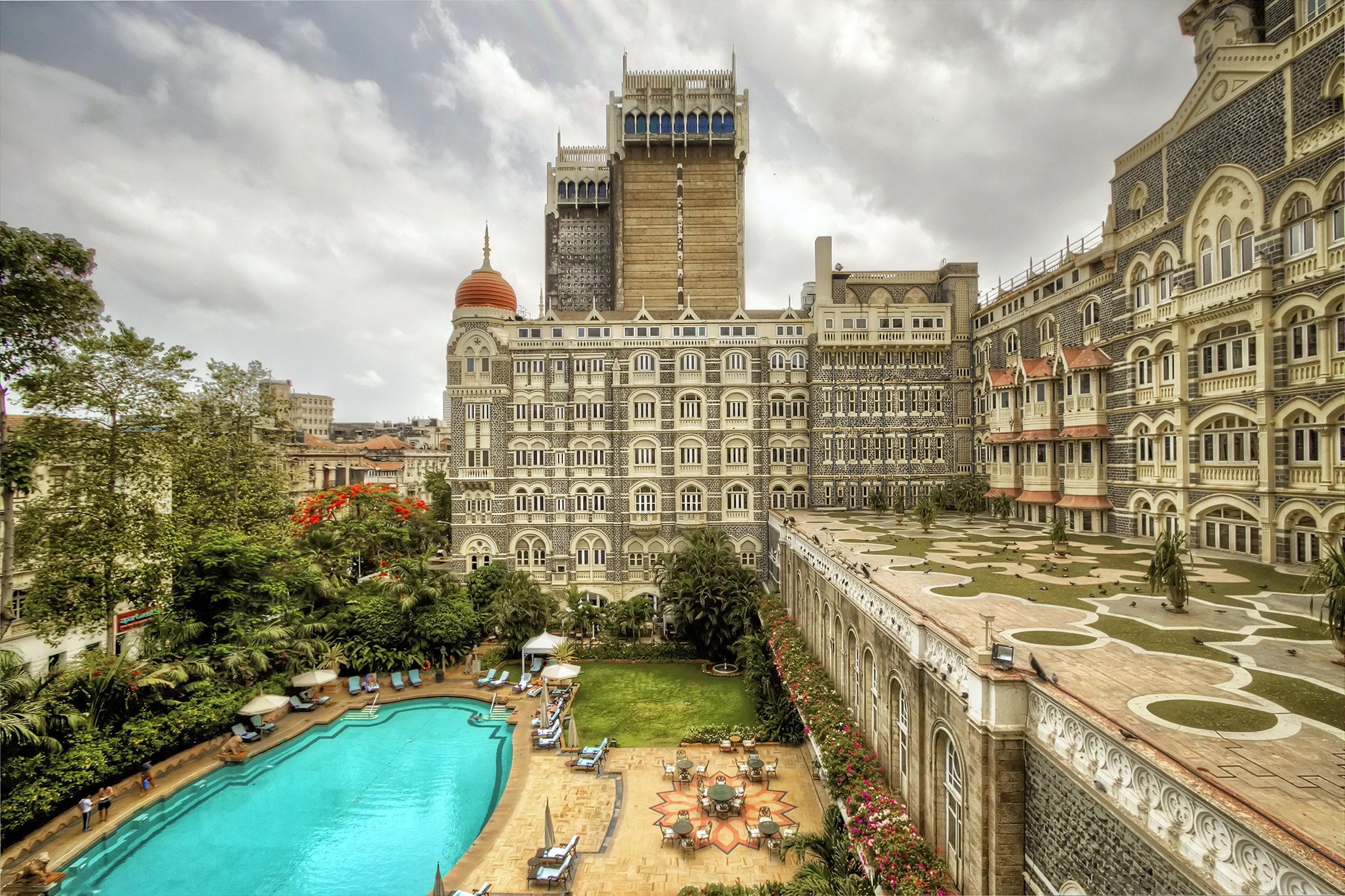 The Taj Mahal Palace Hotel is a five star hotel located in the Colaba region of Mumbai, Maharashtra, India, next to the Gateway of India. Part of the Taj Hotels, Resorts and Palaces, this building is considered the flagship property of the group and contains 560 rooms and 44 suites. From a historical and architectural point of view, the two buildings that make up the hotel, The Taj Mahal Palace and the Tower are two distinct buildings, built at different times and in different architectural designs.